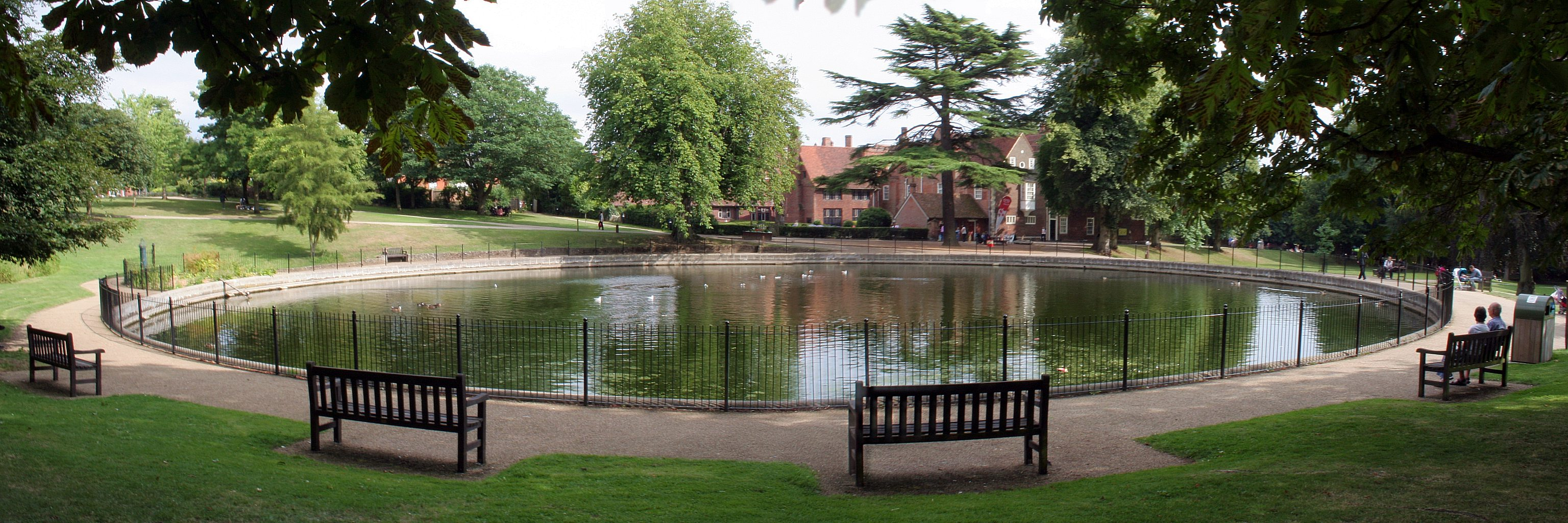 Stitched panorama of the round pond in Christchurch Park, Ipswich in August 2013.